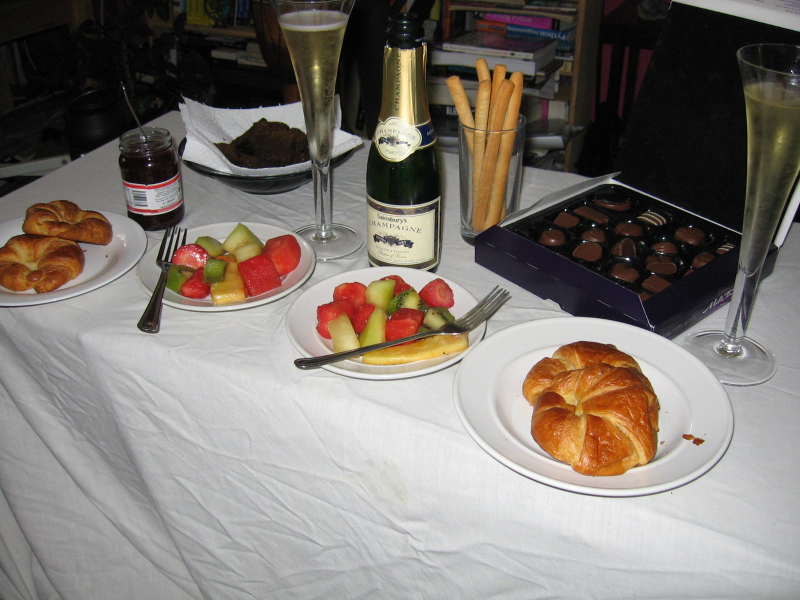 A champagne breakfast. Editor's own work, released under the GFDL